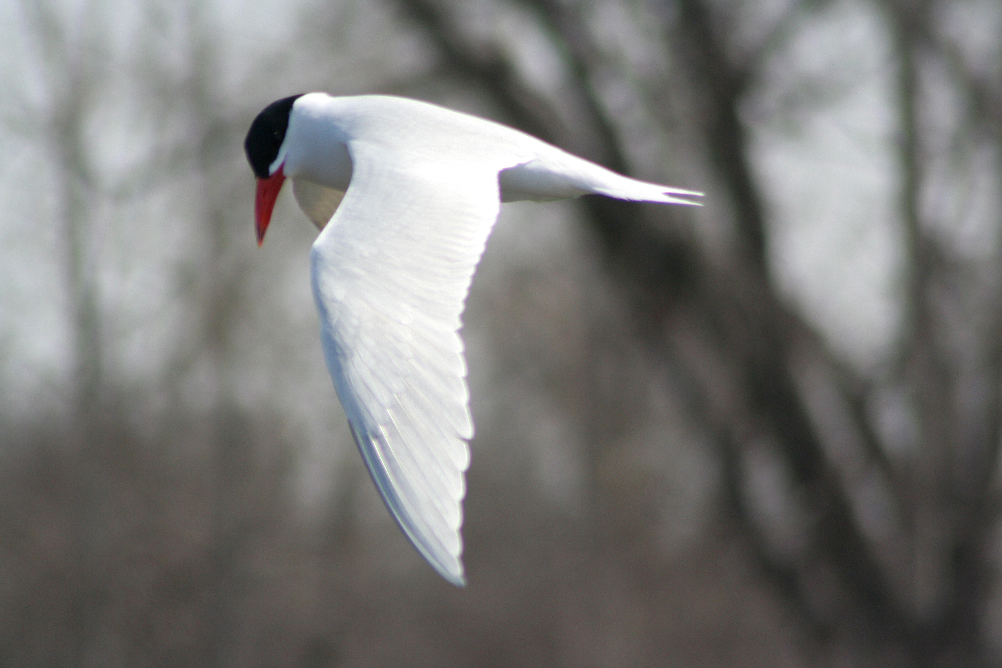 Caspian Tern, Mays Point, Seneca Falls, New York.